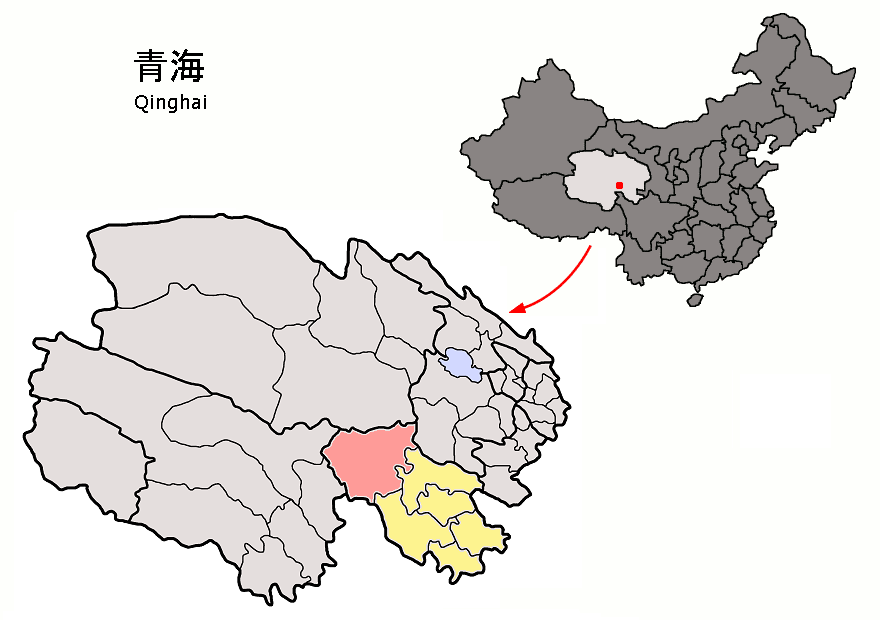 Location of Madoi County (pink) and Golog Prefecture (yellow) within Qinghai province of China Map drawn in september 2007 using various sources, mainly : Qinghai province administrative regions GIS data: 1:1M, County level, 1990 Qinghai Counties map from "Plateau Perspectives" (the limits of some county-level subdivisions may not be accurate)